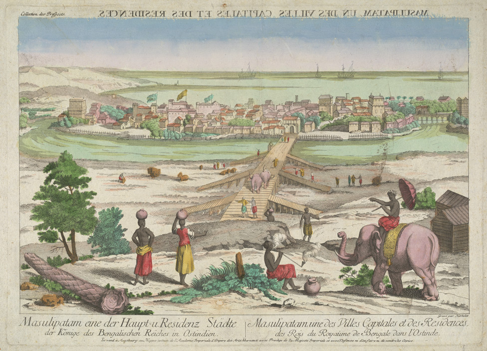 View of Masulipatam. Anonymous.